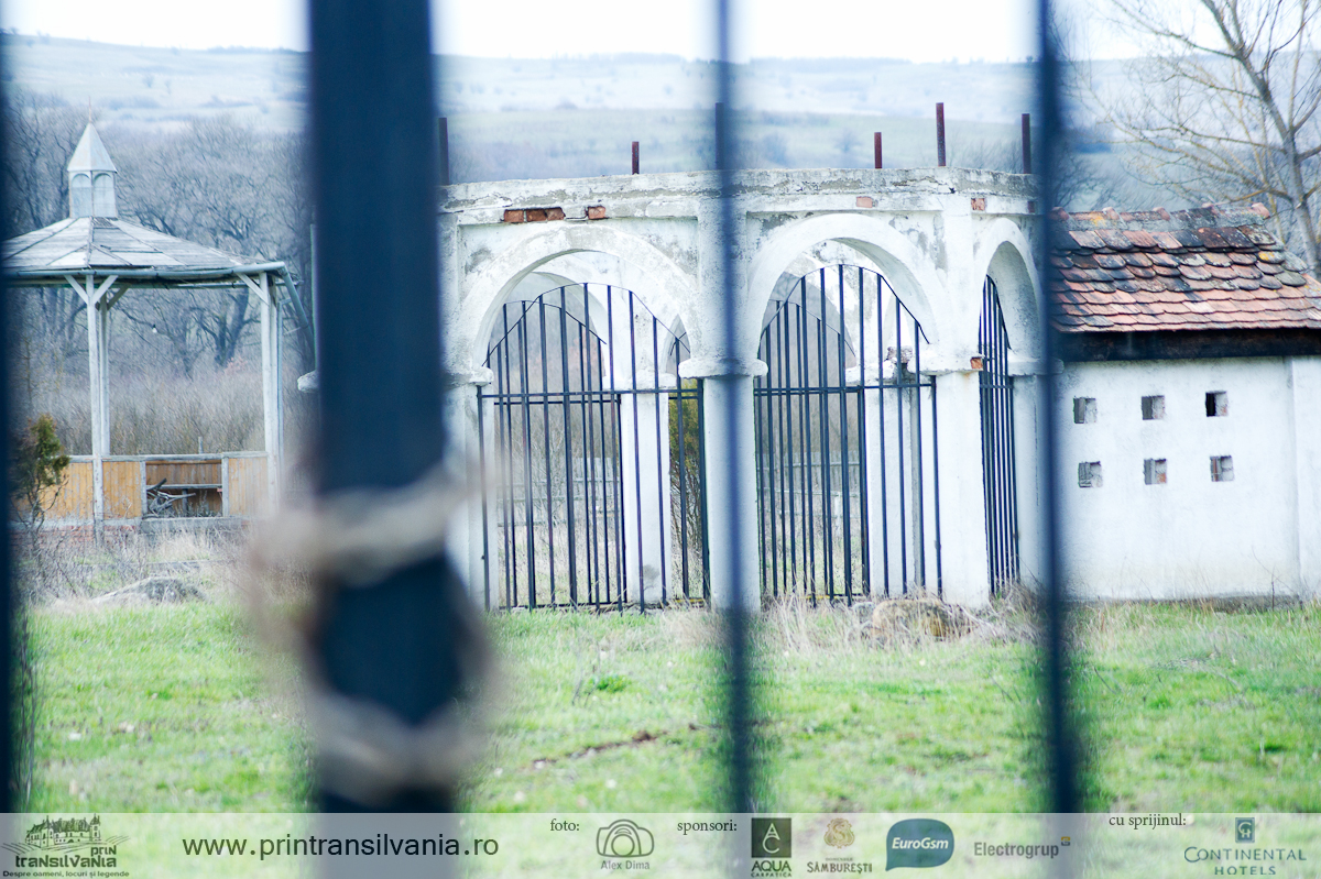 printransilvania.ro/castelul-teleki-luna-de-jos